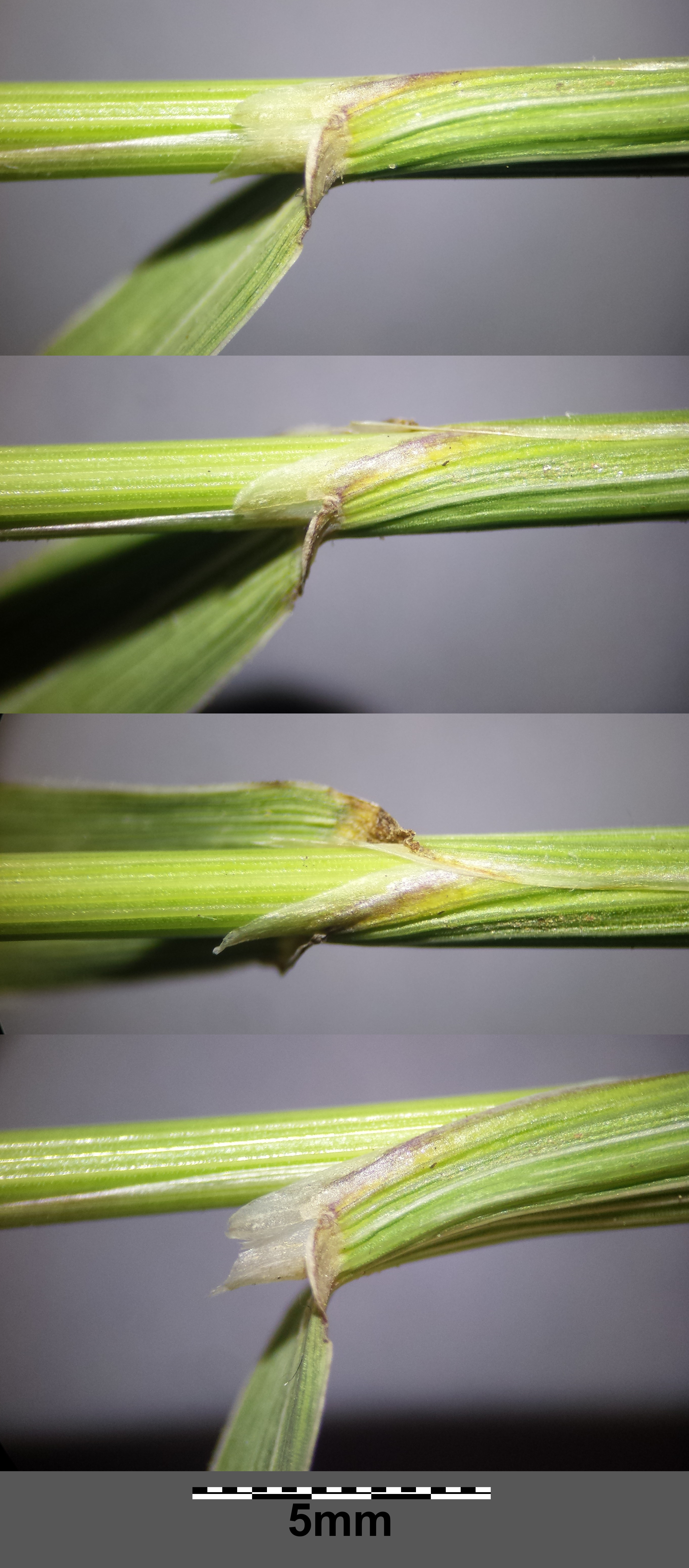 Stem with leaf sheath and ligule Taxonym: Phleum phleoides ss Fischer et al. EfÖLS 2008 ISBN 978-3-85474-187-9 Location: Waldberg in between Kleinebersdorf und Großrußbach, district Korneuburg, Lower Austria - ca. 334 m a.s.l. Habitat: semi-dry grassland